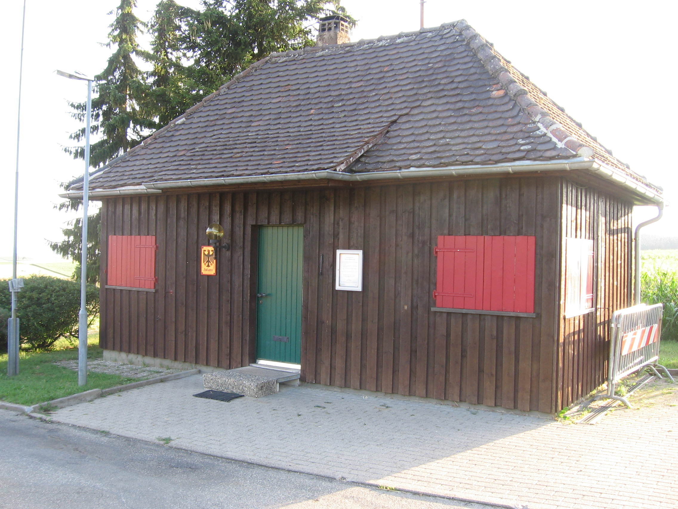 Customs Office Fützen (border Germany-Switzerland)